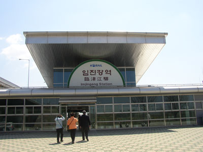 Imjingang Station